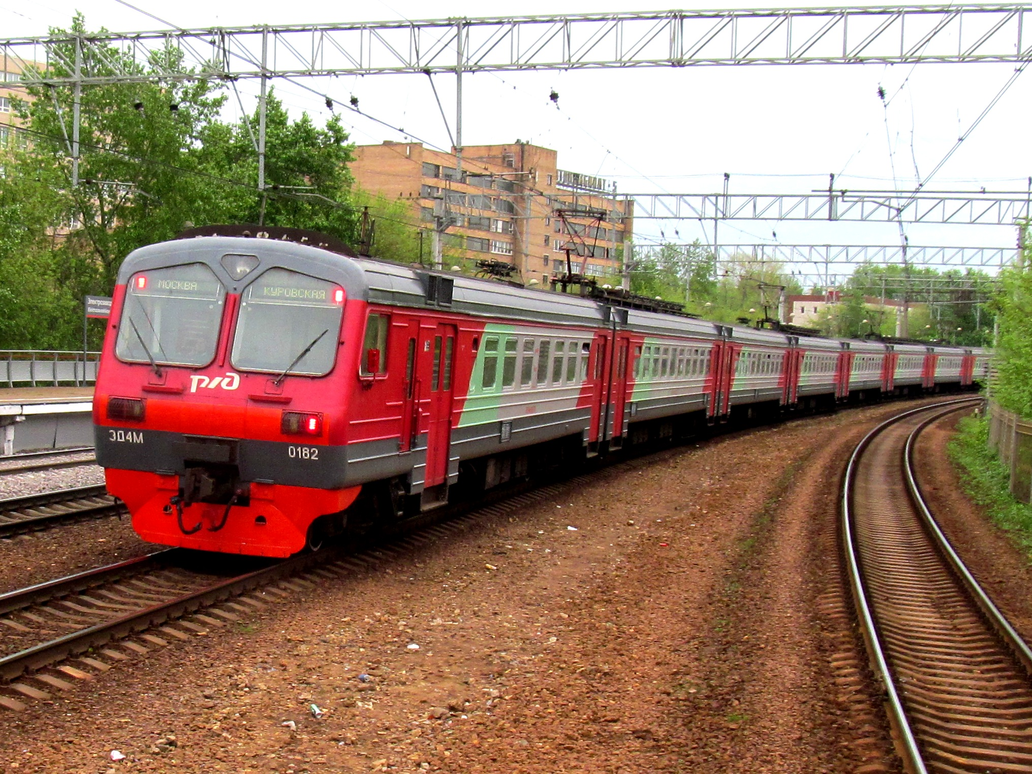 ED4M-0182 EMU in JSCo «RZD» «Ekopoezd» livery near Elektrozavodskaya platform of Moscow Railway